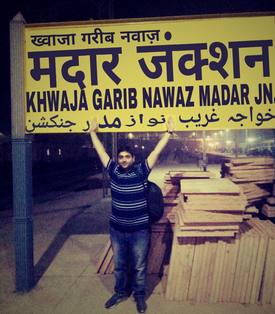 Madar station logo